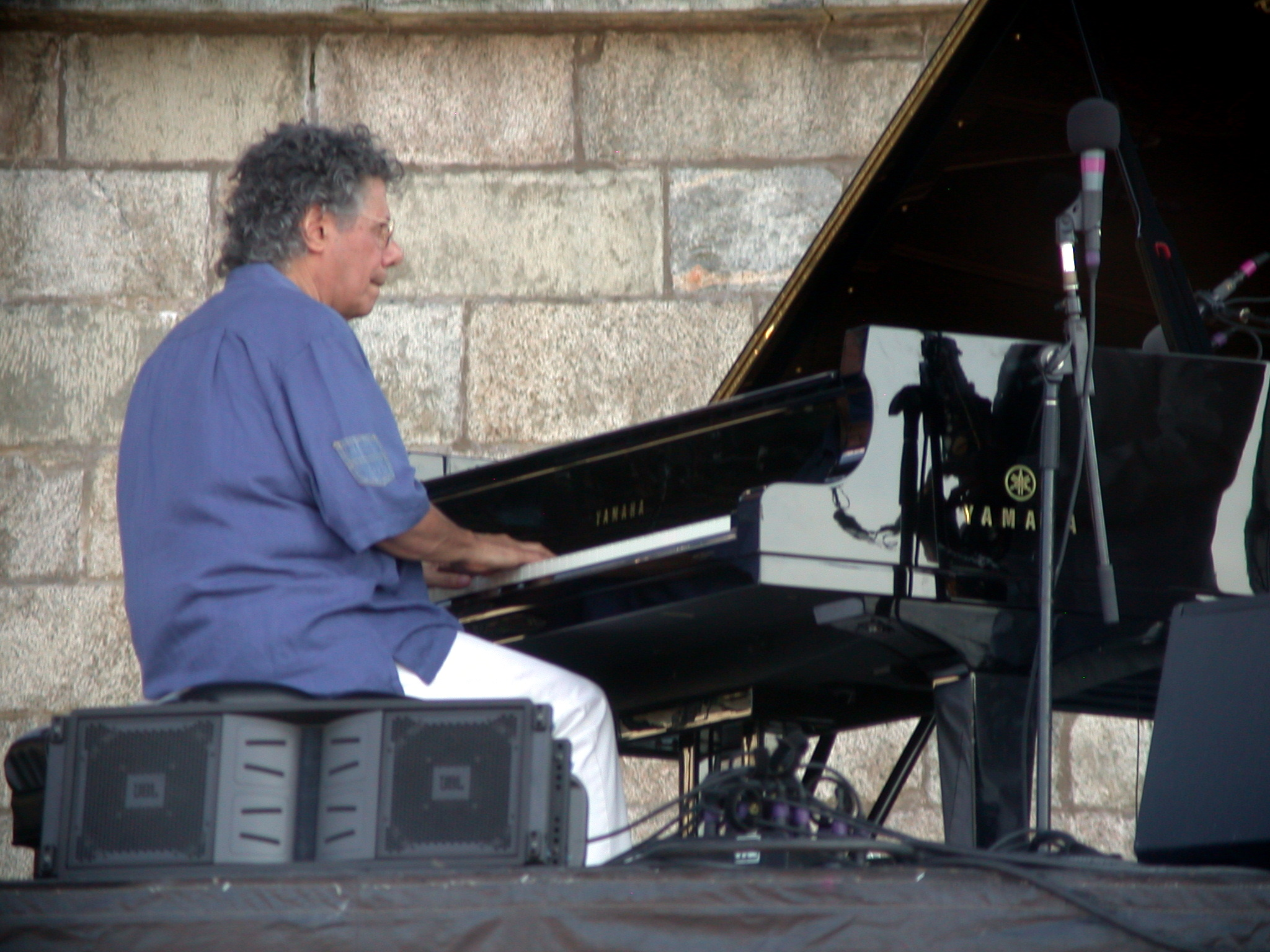 Chick Corea at Newport Jazz Festival 2010